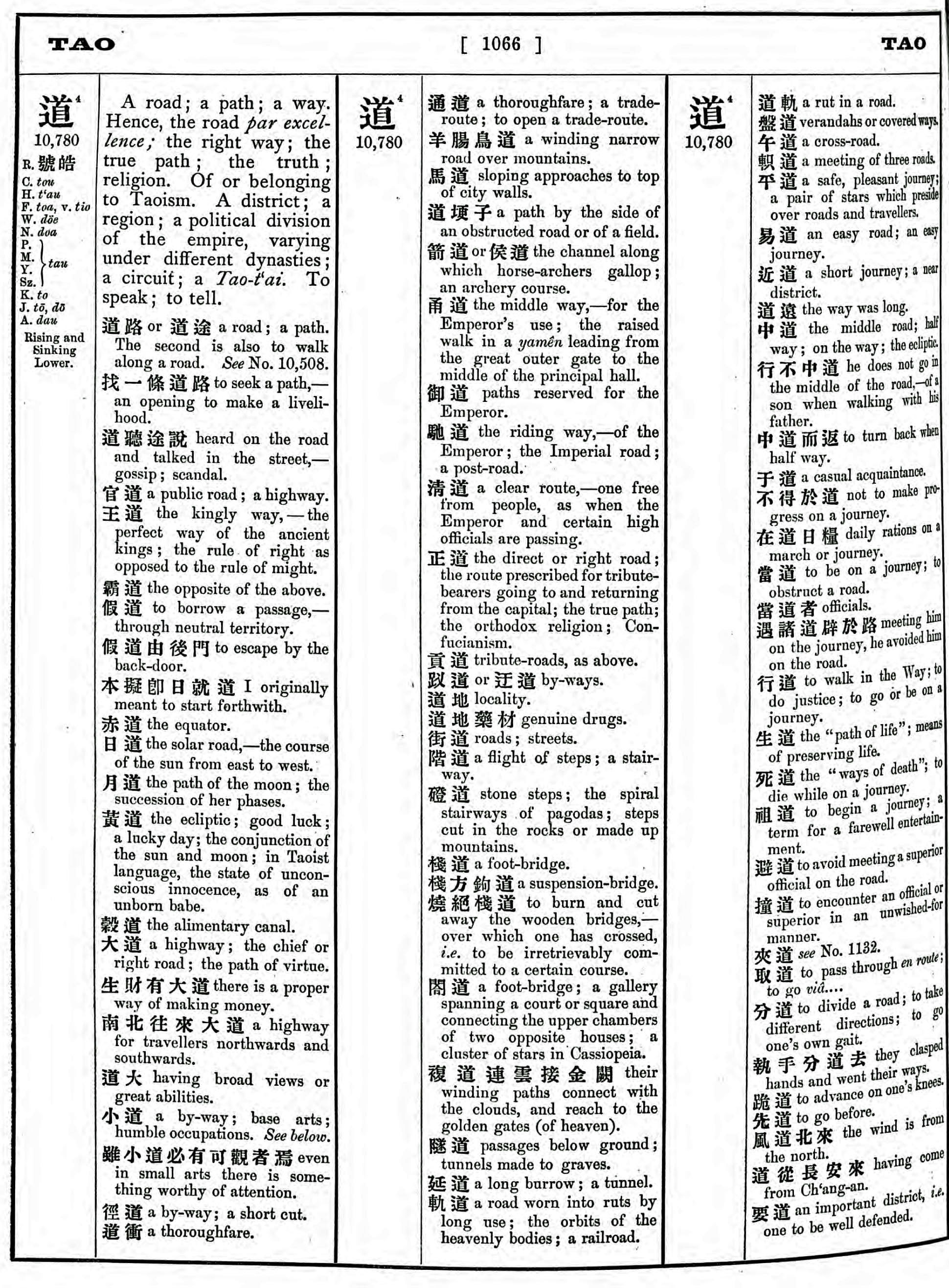 Sample page from Giles' A Chinese-English Dictionary (1892: 1066)